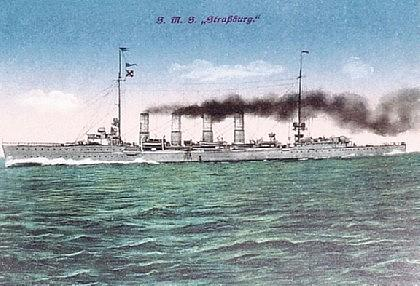 German cruiser SMS Strassburg - Pre-First World War postcard - copyright expired.